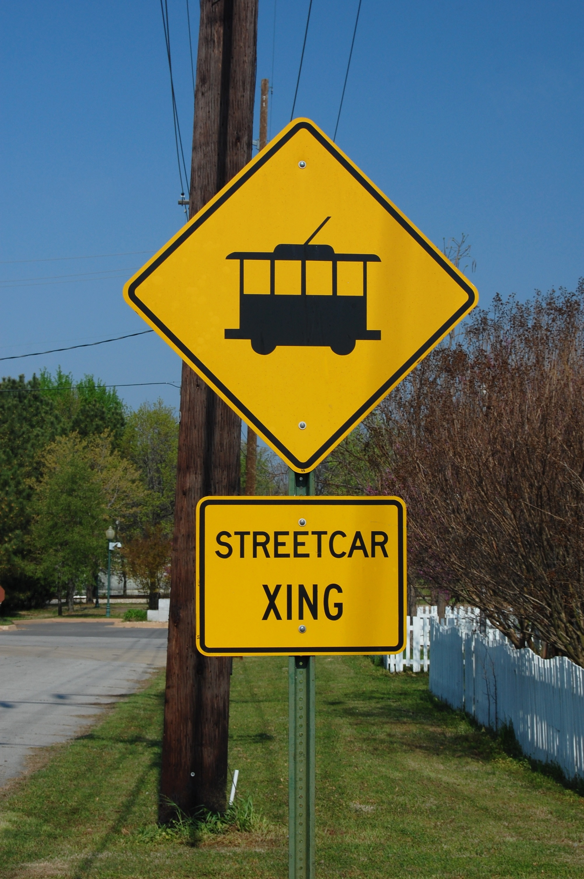 A "streetcar crossing" warning sign for road users in Fort Smith, Arkansas. The photo is looking northwest on Garland Avenue between 4th Street and 3rd Street and is referring to a level crossing of the Fort Smith Trolley Museum's heritage streetcar line, which opened in 1991.